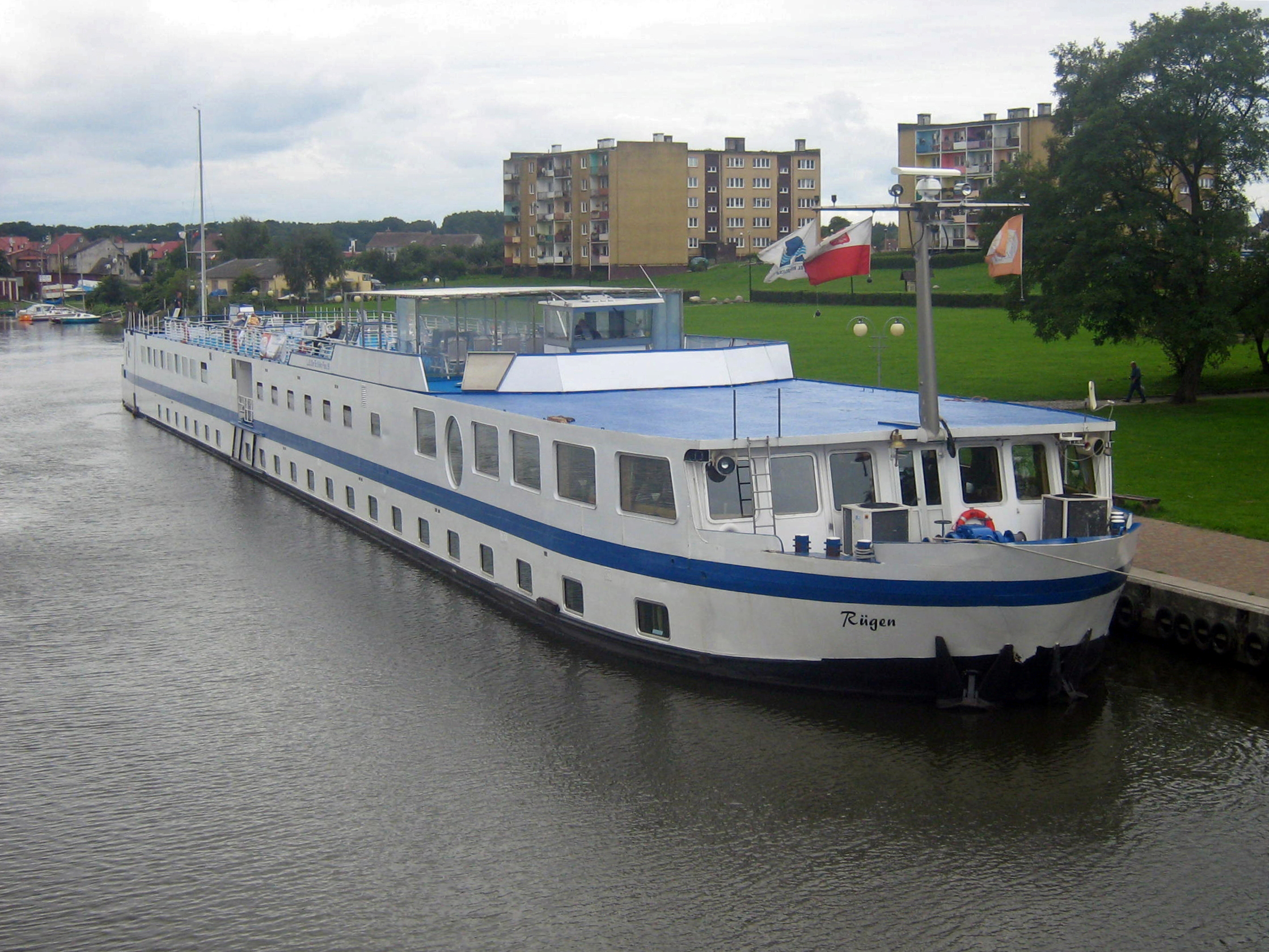 MS Rügen in Wolin (town)